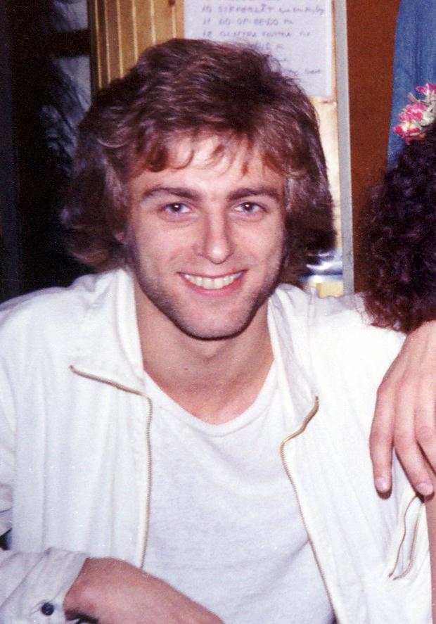 Örjan Ramberg, as released by image creator Lars Jacob ProdPlace: Fattighuset, Döbelnsgatan 3, Stockholm, Sweden